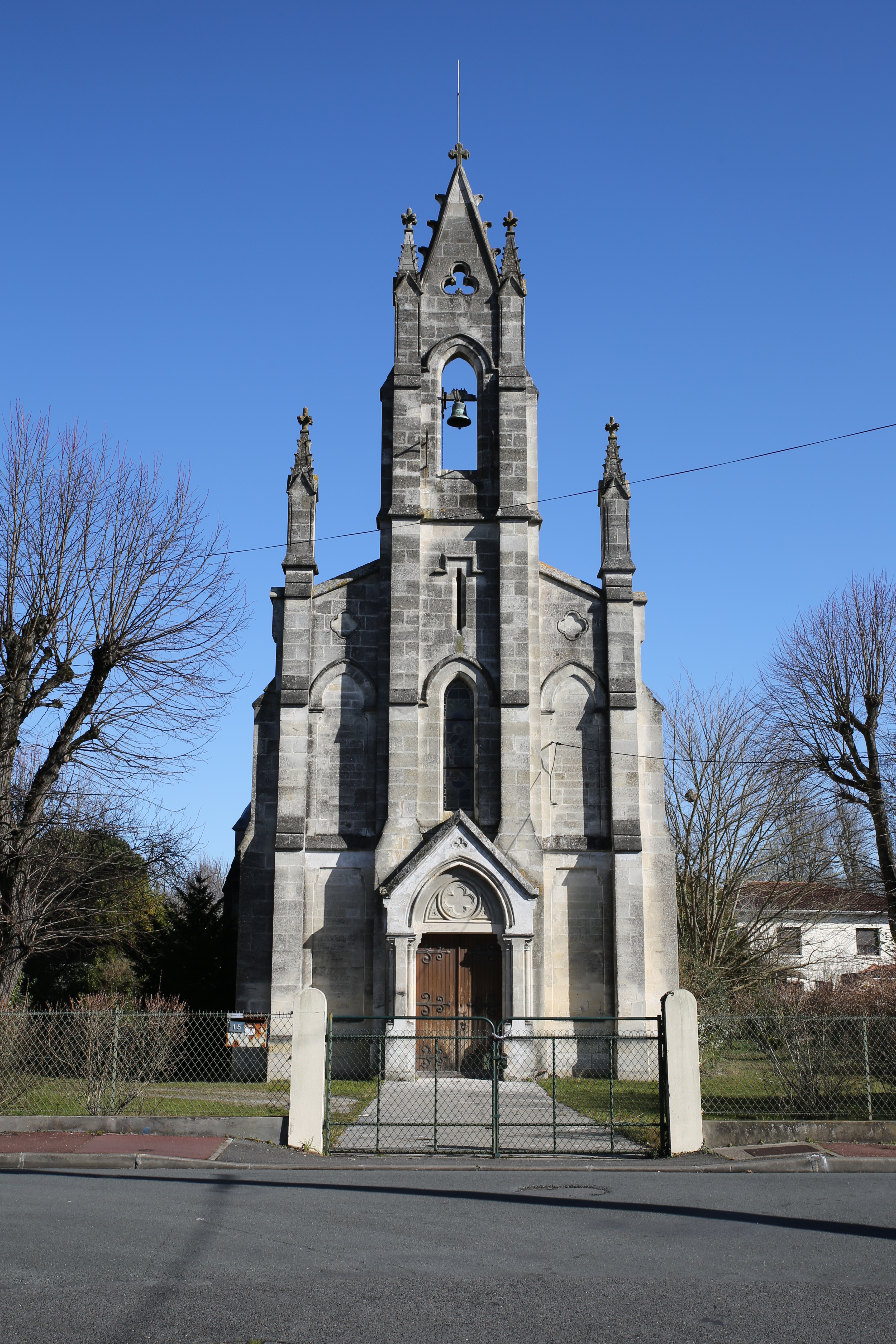 Chapelle Sainte-Germaine